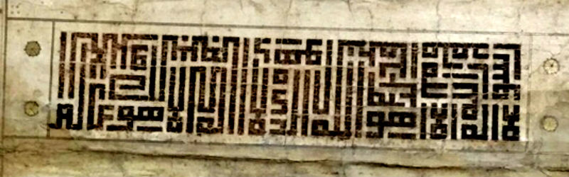 Baysonqor's calligraphy